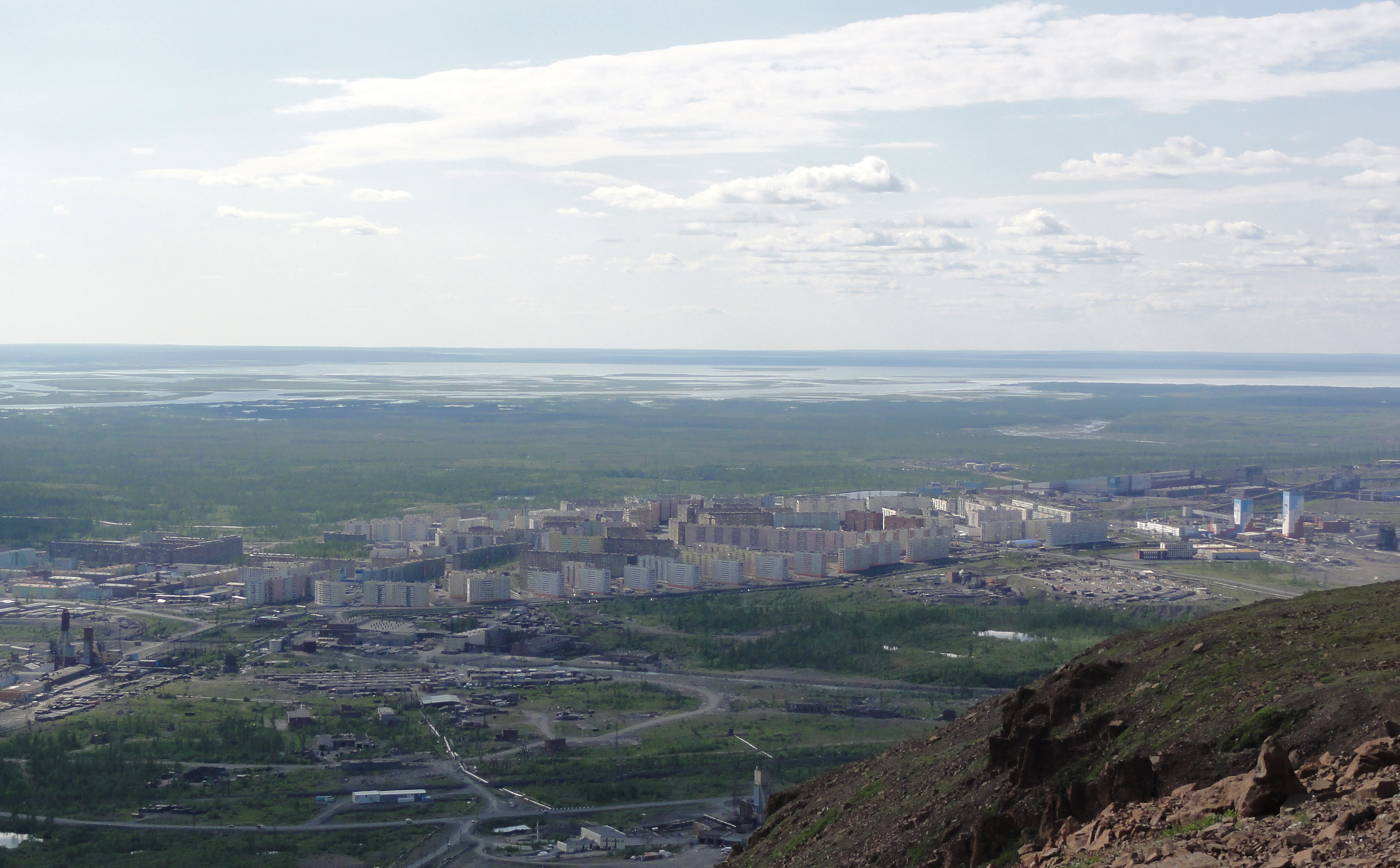 Panorama of Talnakh